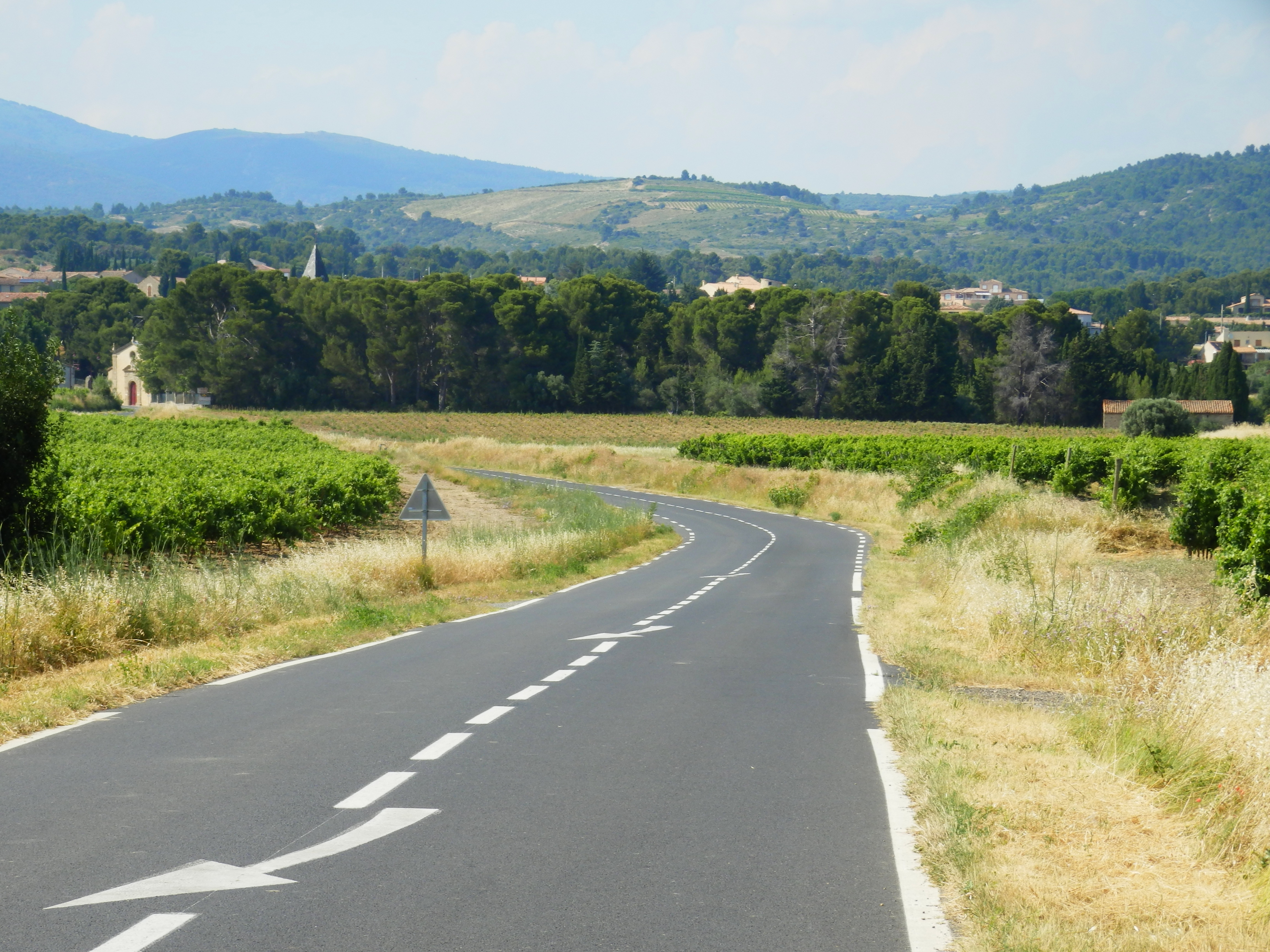 D12 close to La Livinière, Hérault, France